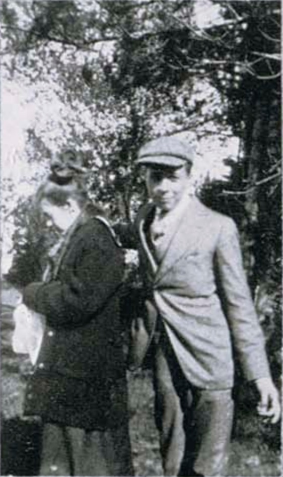 From the 1916–1917 Sturgeon Bay High School yearbook, caption reads "Bashful"